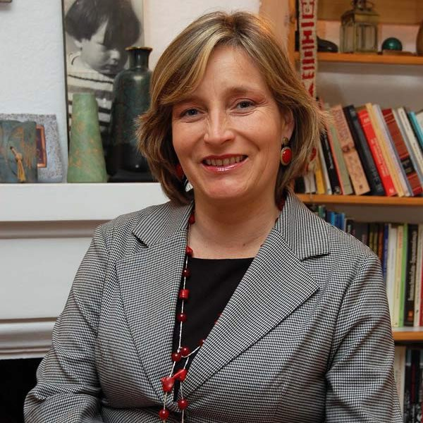 Valparaiso